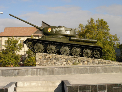 This Soviet tank is situated in the central square of Tiraspol, in front of the building of the Supreme Soviet and one of Lenin's statues.